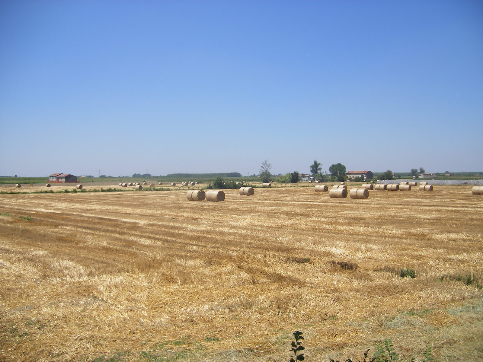 Landscape between Brescello and Sorbolo